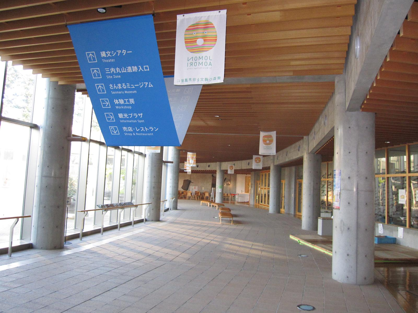 Jomon jiyukan interior